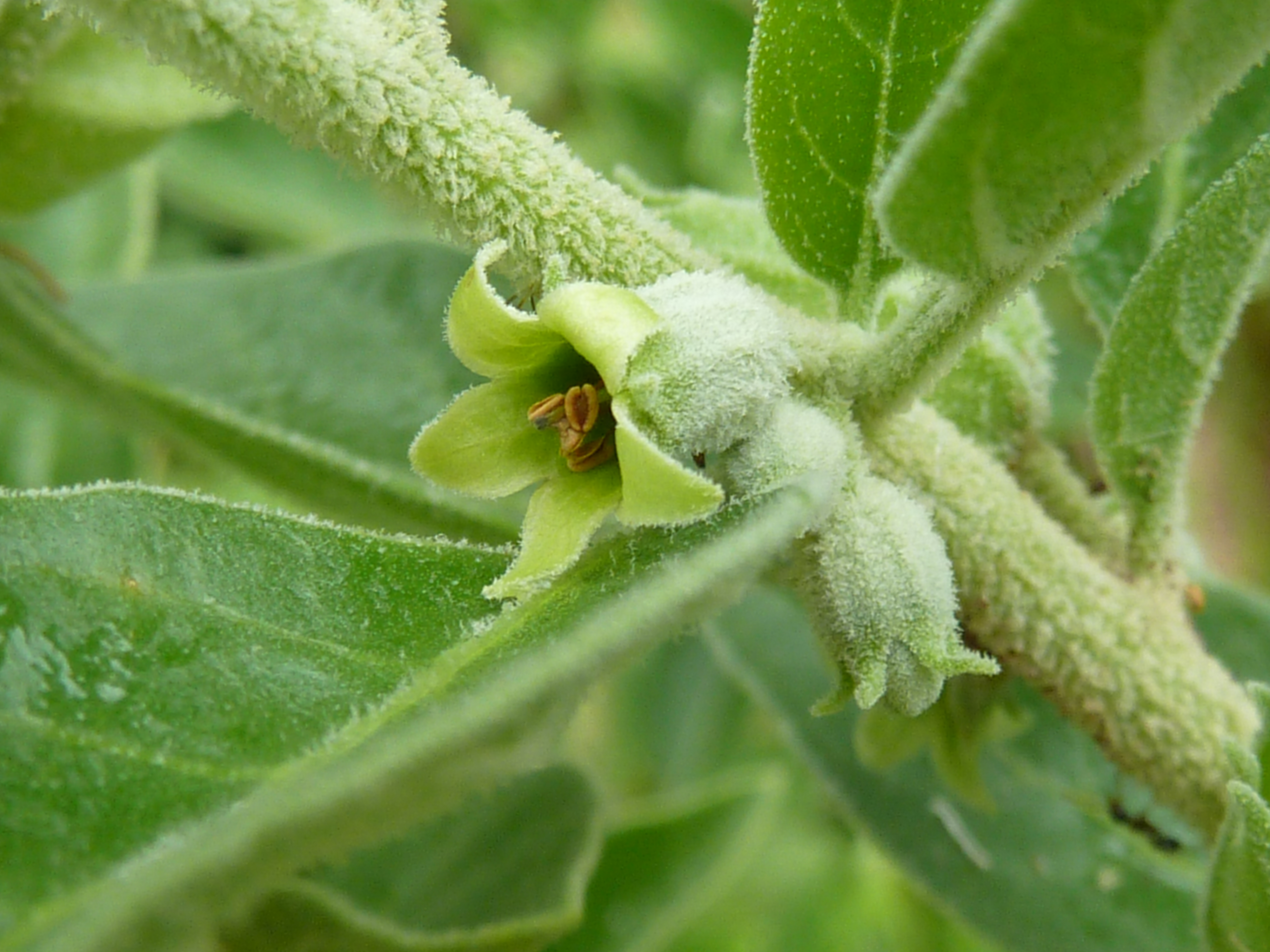 Flower of an Indian ginseng at the Manie van der Schijff Botanical Garden, Pretoria, South Africa